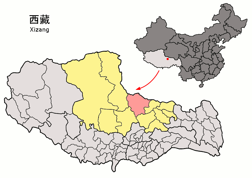 Location of Amdo County (pink) and Nagchu Prefecture (yellow) within Tibet Autonomous Region (Xizang Zizhiqu) of China